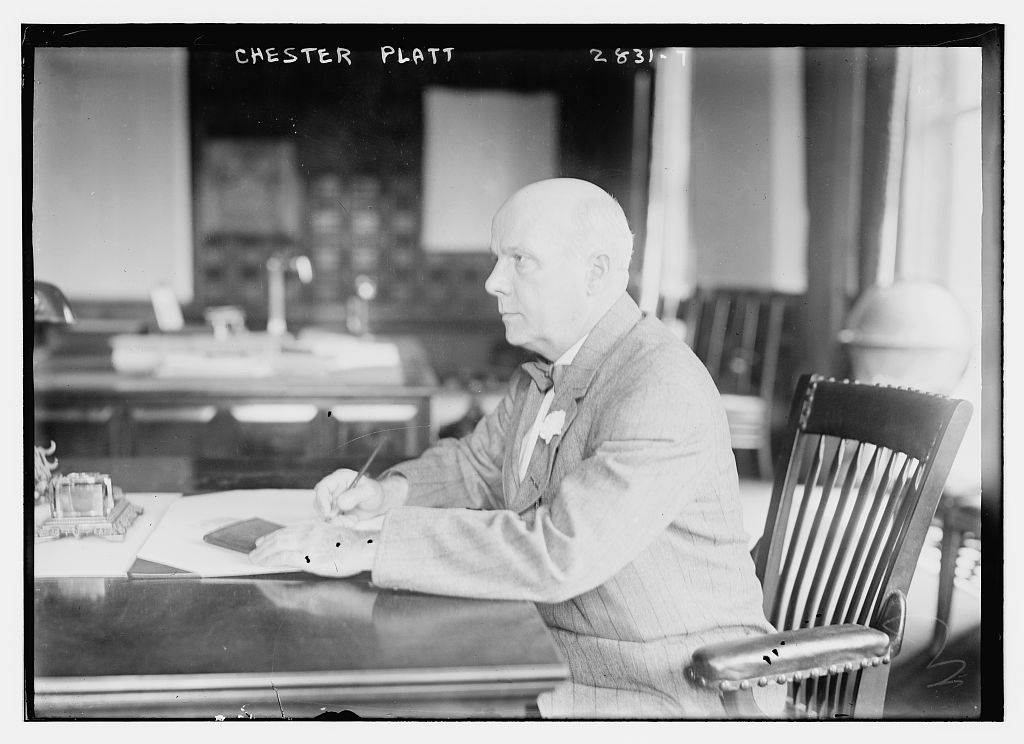 Bain News Service, publisher. Chester Platt [between ca. 1910 and ca. 1915] 1 negative : glass ; 5 x 7 in. or smaller. Notes: Title from unverified data provided by the Bain News Service on the negatives or caption cards. Forms part of: George Grantham Bain Collection (Library of Congress). Format: Glass negatives. Repository: Library of Congress, Prints and Photographs Division, Washington, D.C. 20540 USA, General information about the Bain Collection is available at Persistent URL: Call Number: LC-B2- 2831-7